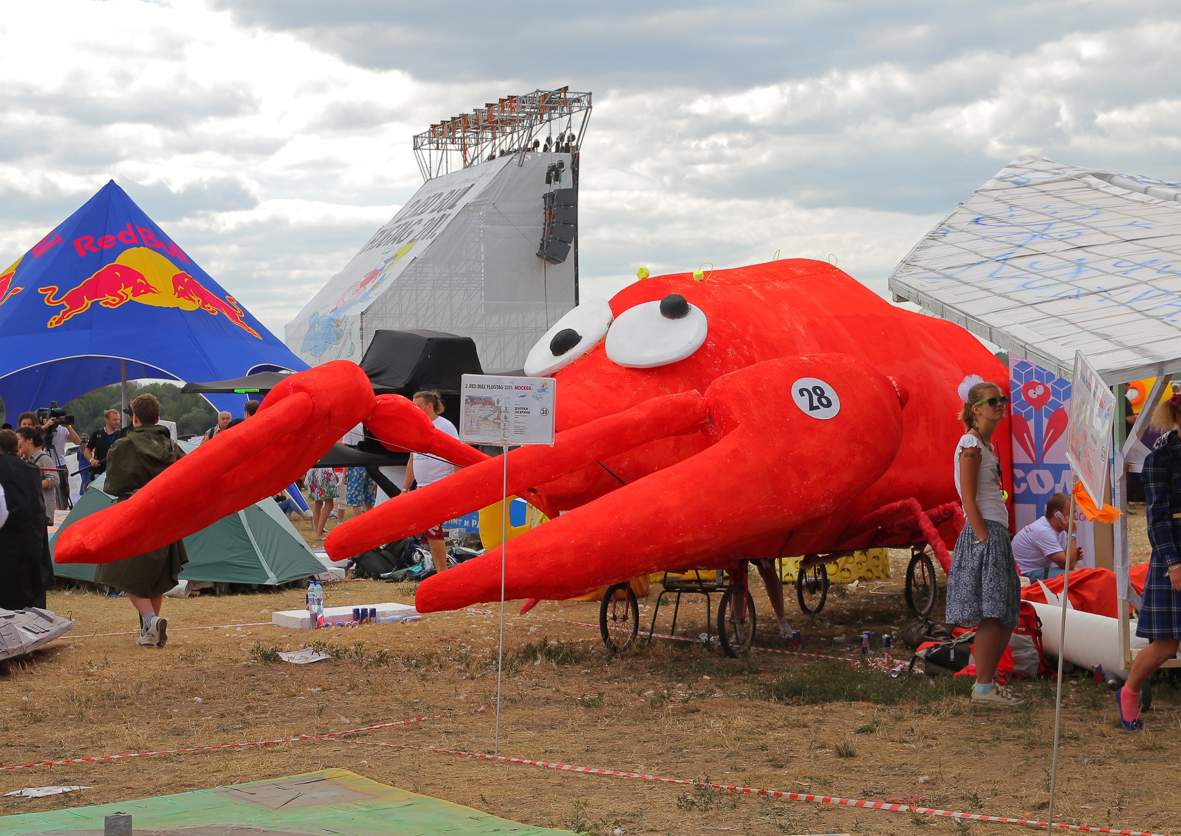 Red Bull Flugtag in Moscow, August 2011. Exposition of flying machines which took part on contest.